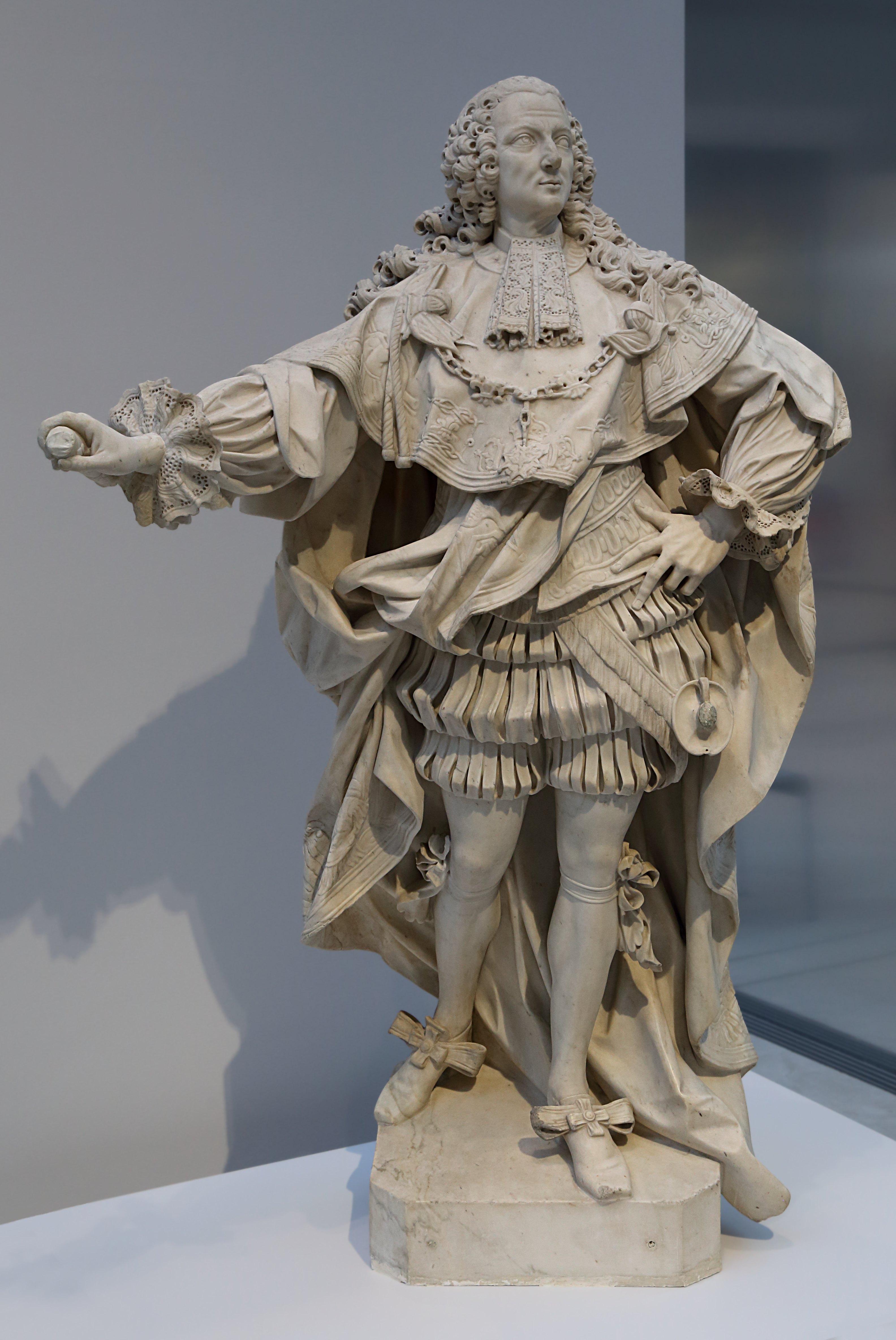 Francesco Maria SCHIAFFINO, Genoa (Italy), 1688 - Genoa (Italy), 1763 1748, Duke of Richelieu, Marshall of France (1696 - 1788), wearing the habit of the Order of the Holy Spirit. Marble. Louvre-Lens Museum, France.